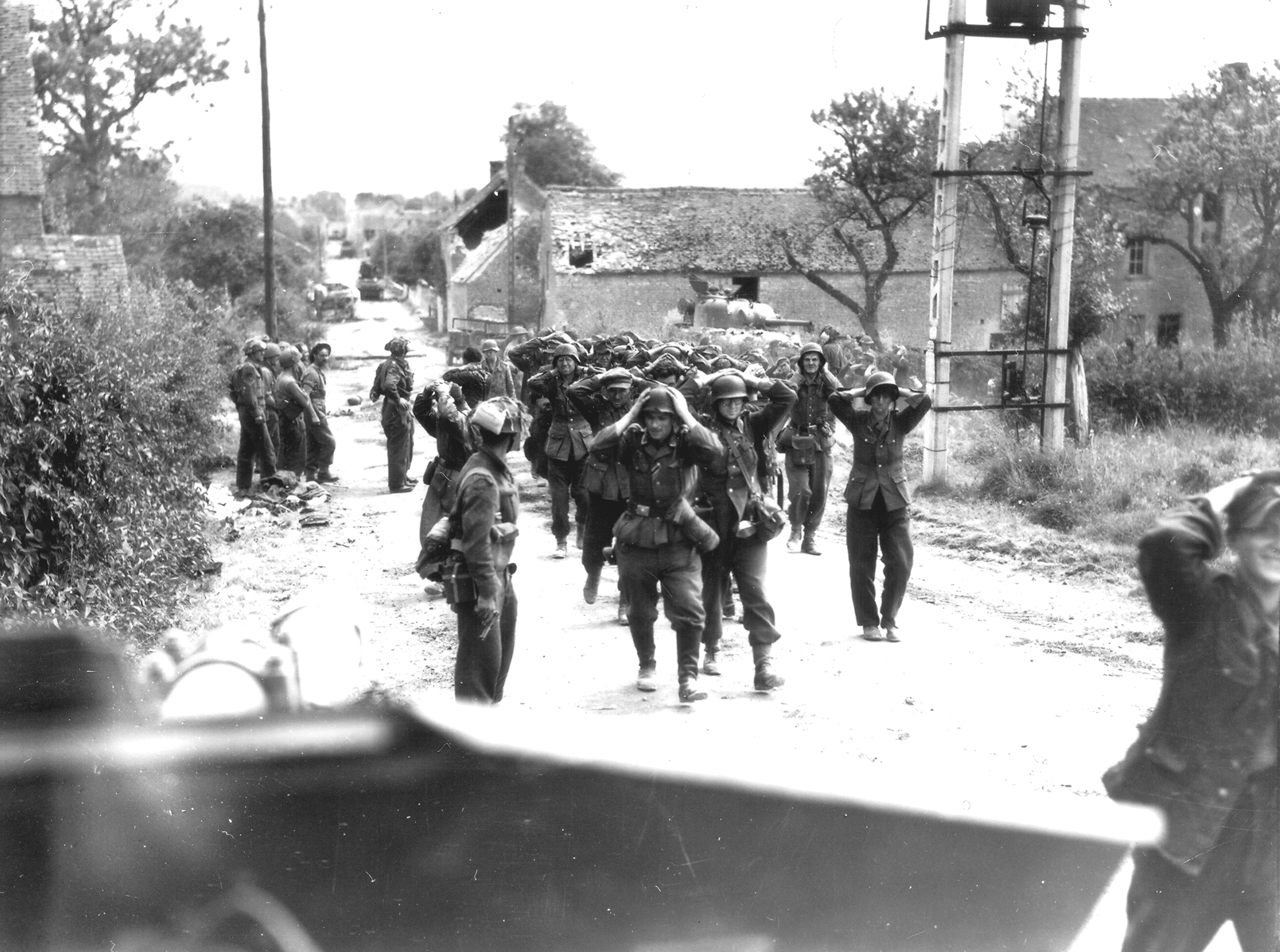 German forces surrendering in Saint-Lambert-sur-Dive